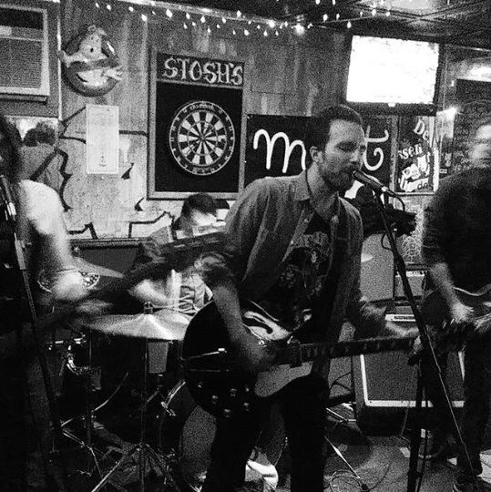 The Vice Rags performing live at Stosh's in 2018.